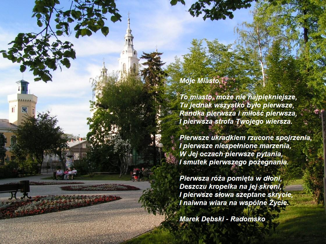 Radomsko - My Town